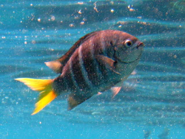 Abudefduf notatus, Seychelles, Praslin